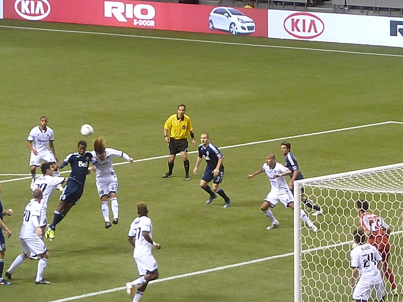 Van vs Edm, 9-May-2012